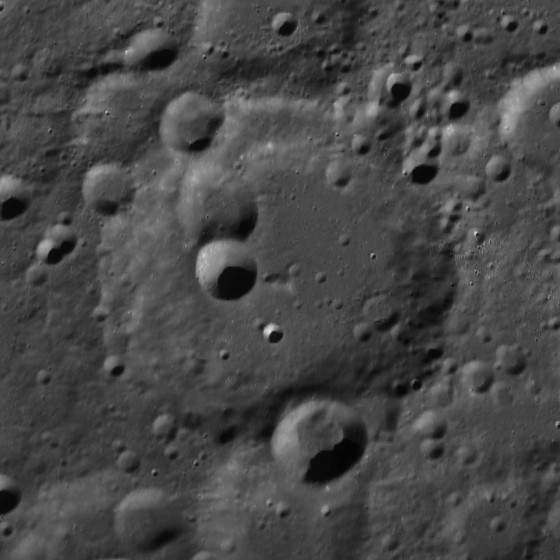 Cremona crater, on the moon. Lunar Reconnaissance Orbiter North Polar mosaic.